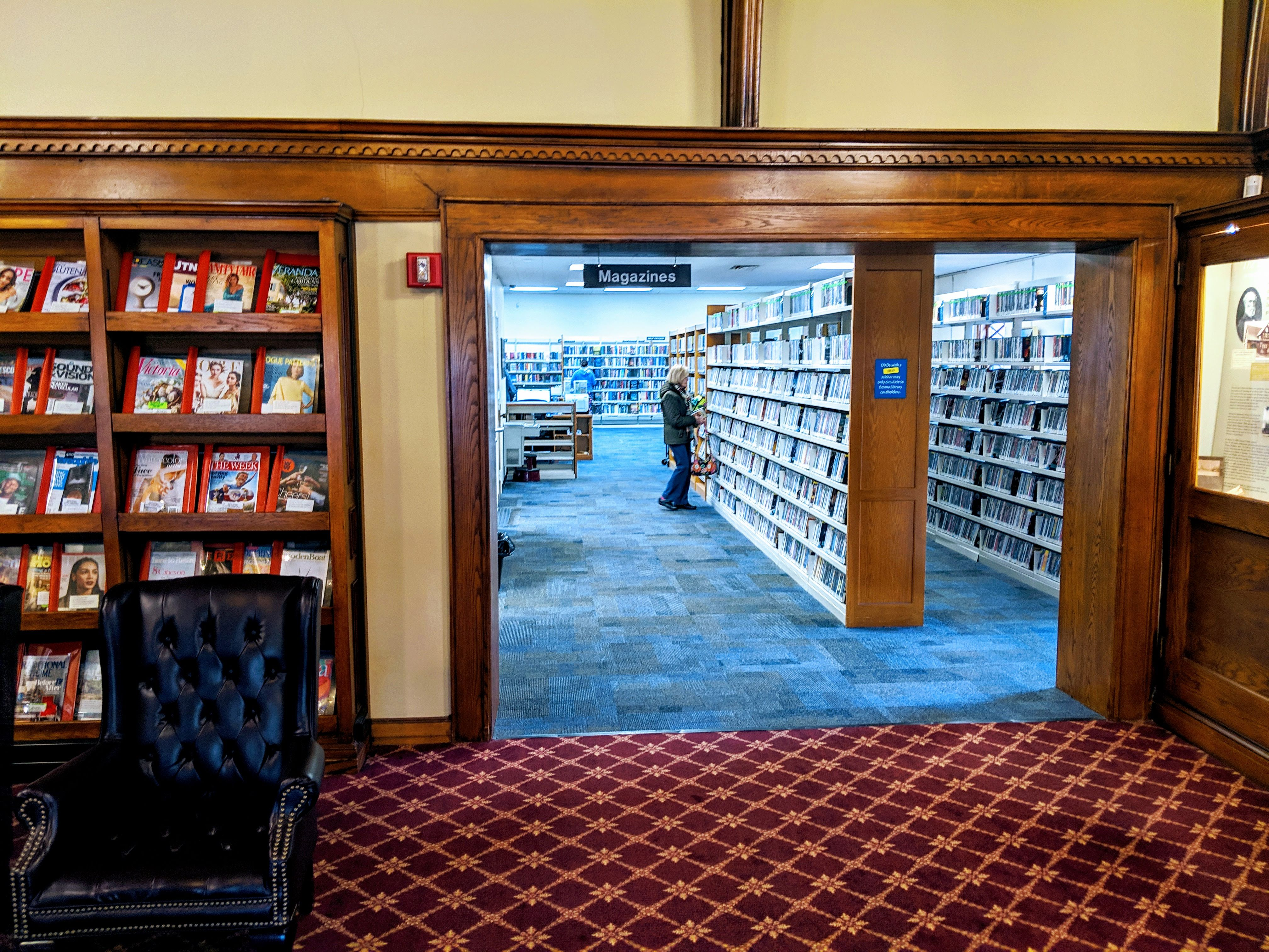 Bookshelves at Emma Clarke and patron